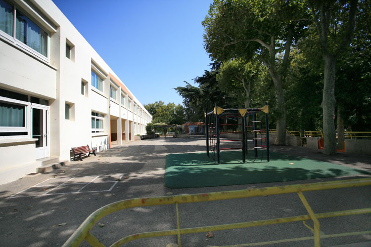 school in the village of Courthézon, Vaucluse, France